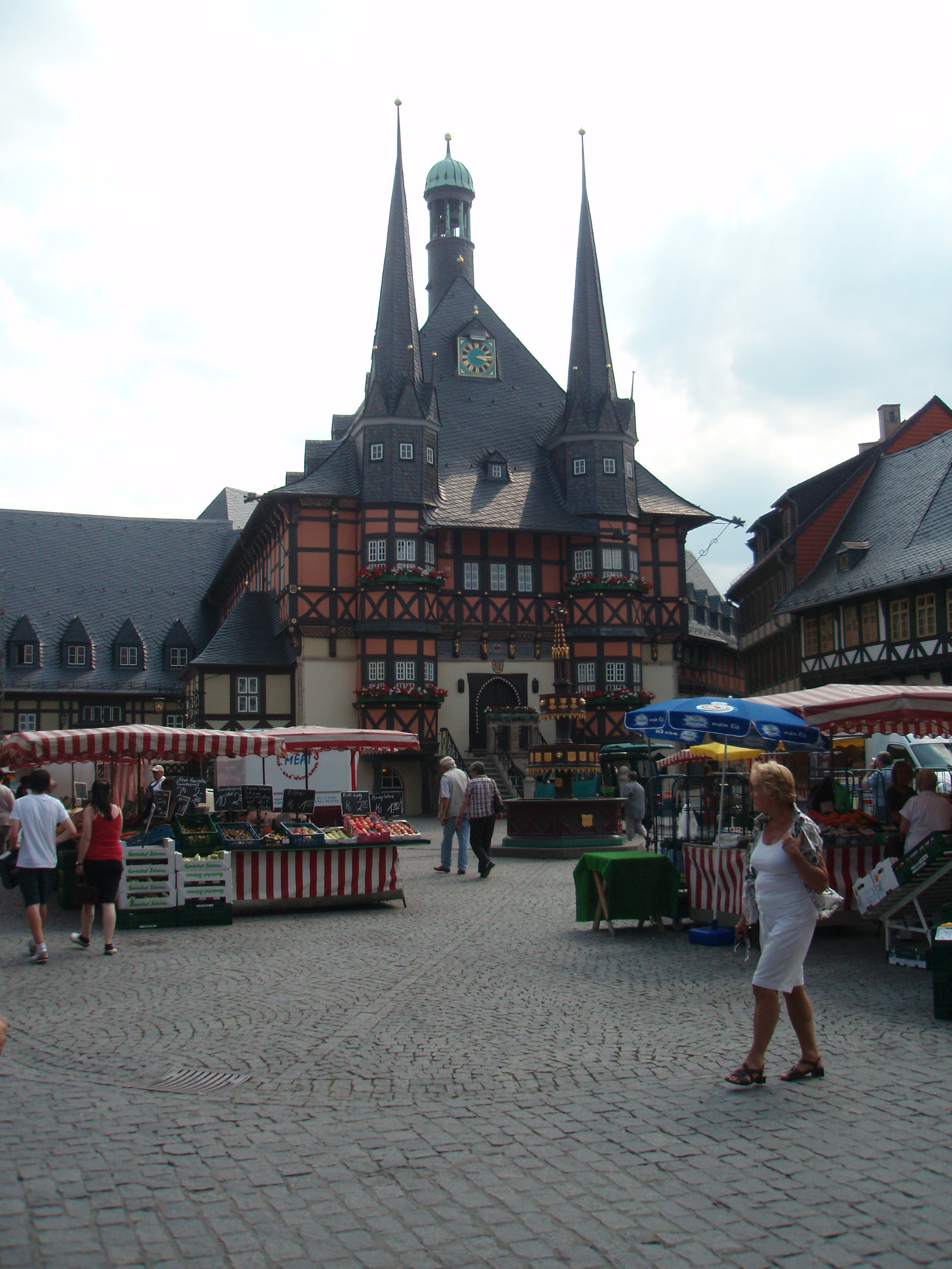 Rathaus and Marktplatz in Wernigerode, Saxon-Anhalt, during a summer market day.